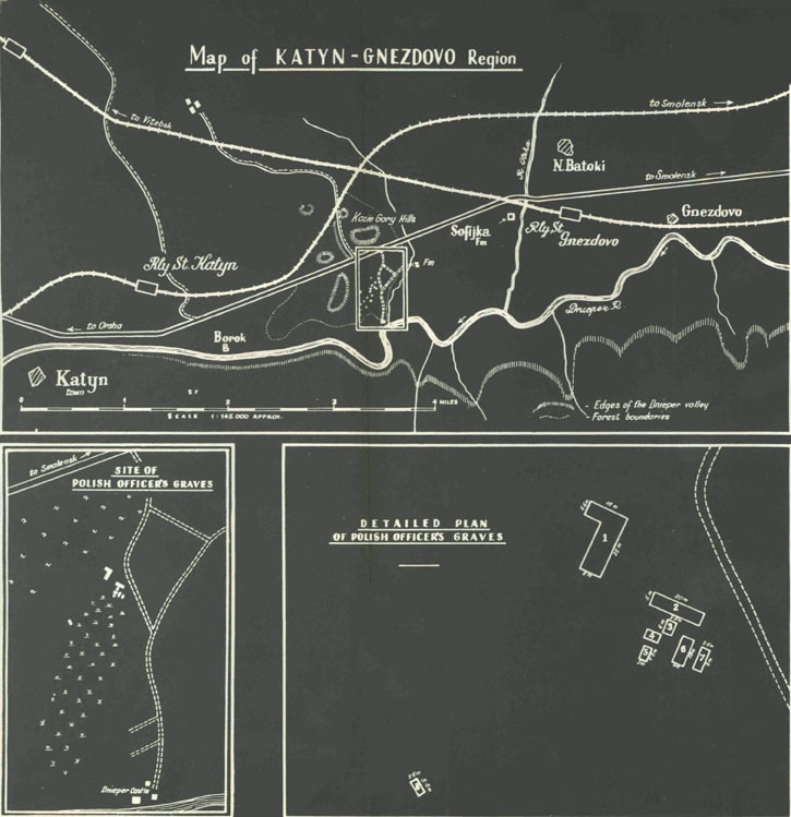 map of Polish graves in Katyn, Russia, as "...part of a larger report, written between December 1944 and February 1946 by the Council of Ministers of the Polish Government in London, and entitled "Facts and Documents Concerning Polish Prisoners of War Captured by the U.S.S.R. During the 1939 Campaign". This report was transmitted by a member of the Polish government in exile, Lt. Gen. M. Kukiel, via the American military attaché's office in London, to Maj. Gen. Telford Taylor in December of 1947, and eventually appeared before the Madden Committee, having been mistaken for the lost "van Vliet report" (Record Group 319, Department of the Army, Office of the Assistant Chief of Staff for Intelligence, Permanent Retention Files, 1918-1963, 319-5937-1, Report - Facts and Documents Concerning Polish Prisoners of War Captured by the U.S.S.R. During the 1939 Campaign, 1946)."